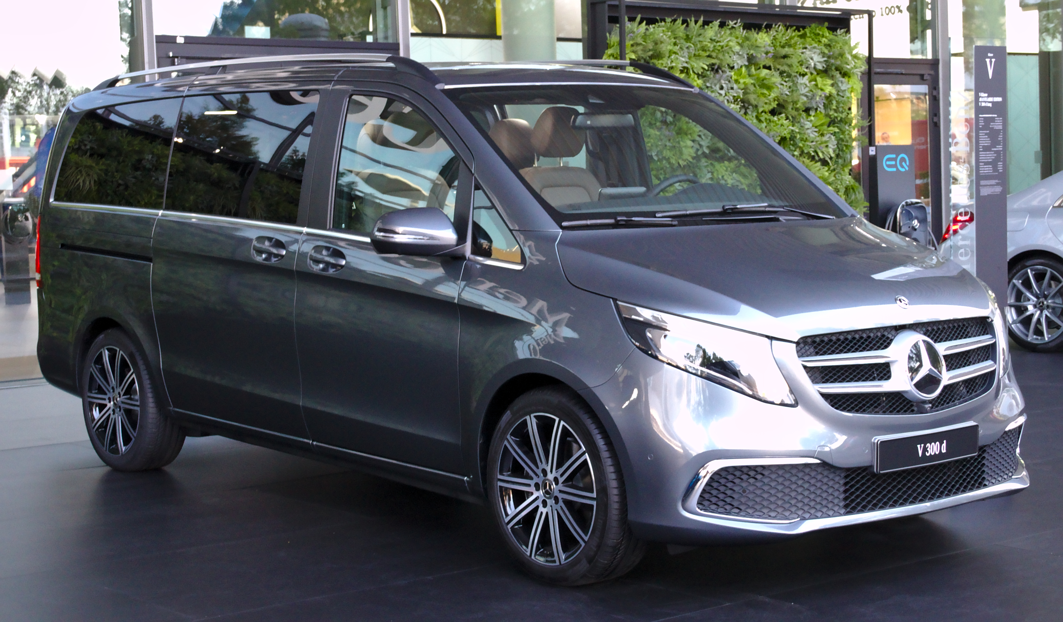 Mercedes-Benz_V-Class_(W447) at IAA 2019